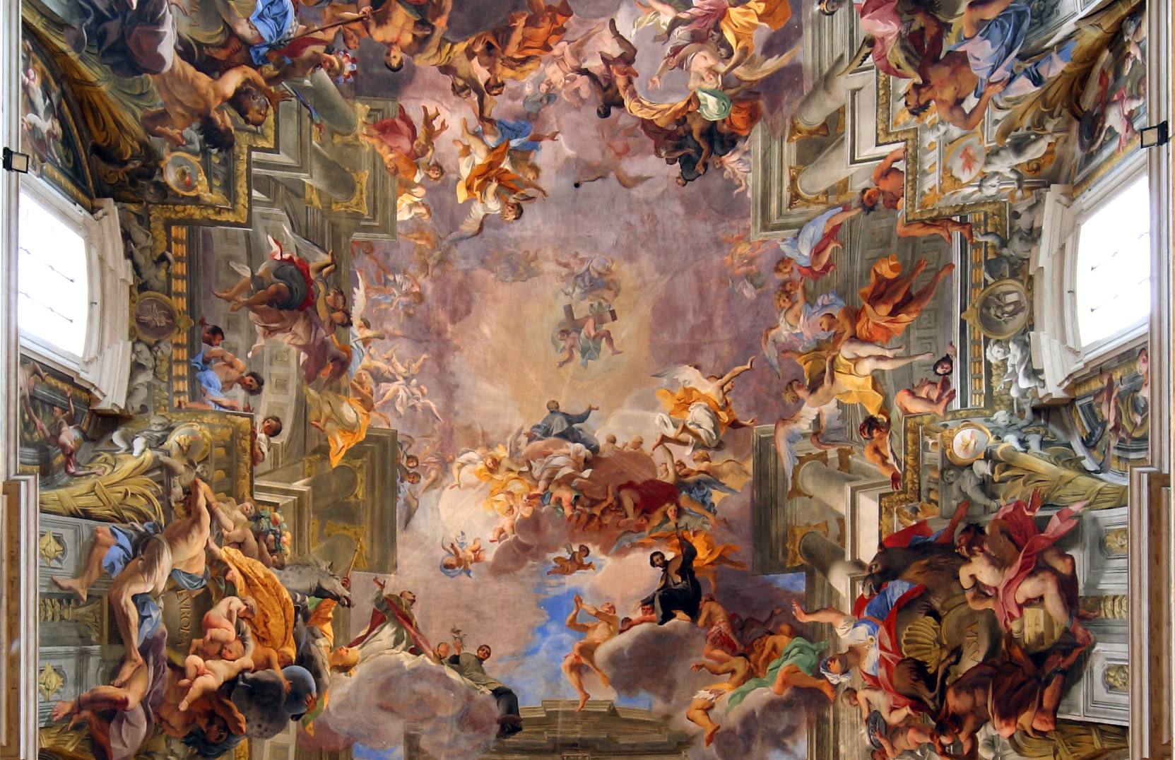 Trompe l'oeil ceiling fresco by Andrea Pozzo. The ceiling is completely flat, including the dome on the left. The photograph is taken from floor level in the centre of the church. The illusion effect of the dome is slightly better from a higher vantage point (eye level).